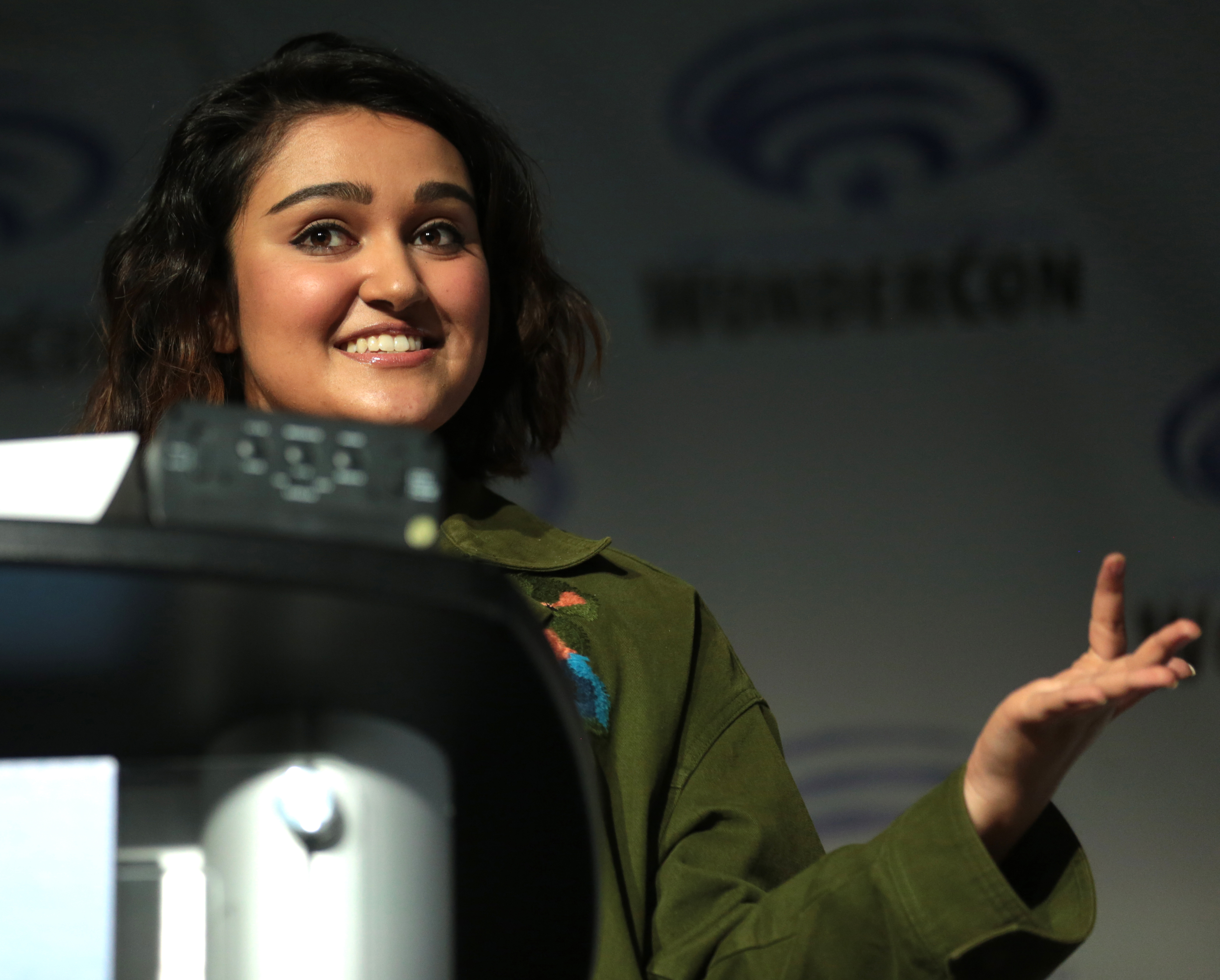 Ariela Barer speaking at the 2018 WonderCon in Anaheim, California.